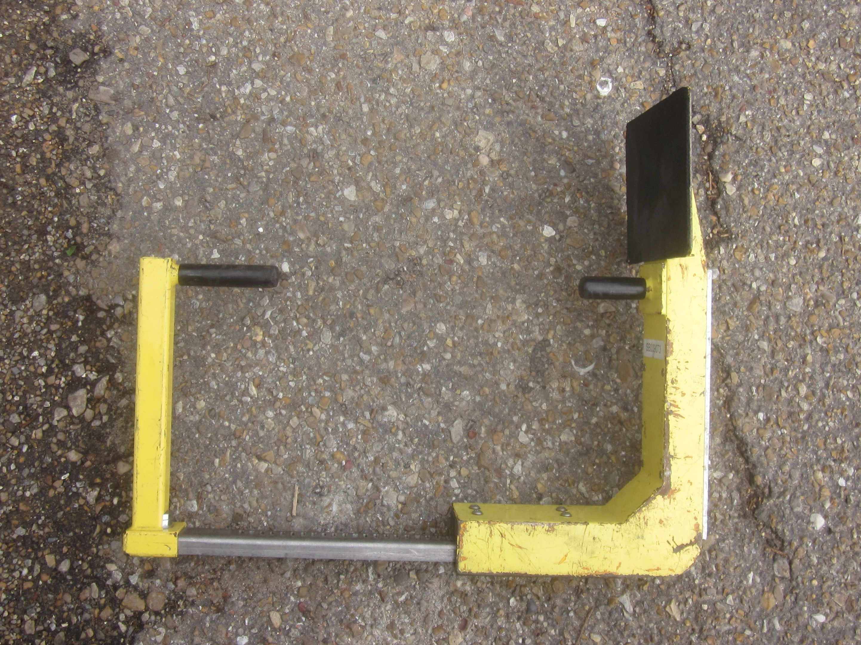 Parking automobile wheel clamp, locally known as a "boot", New Orleans. On ground, shown in open position.